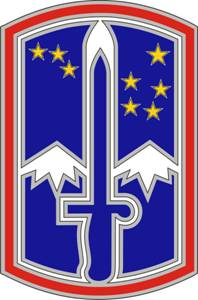 172nd Infantry Brigade Combat Service Identification Badge